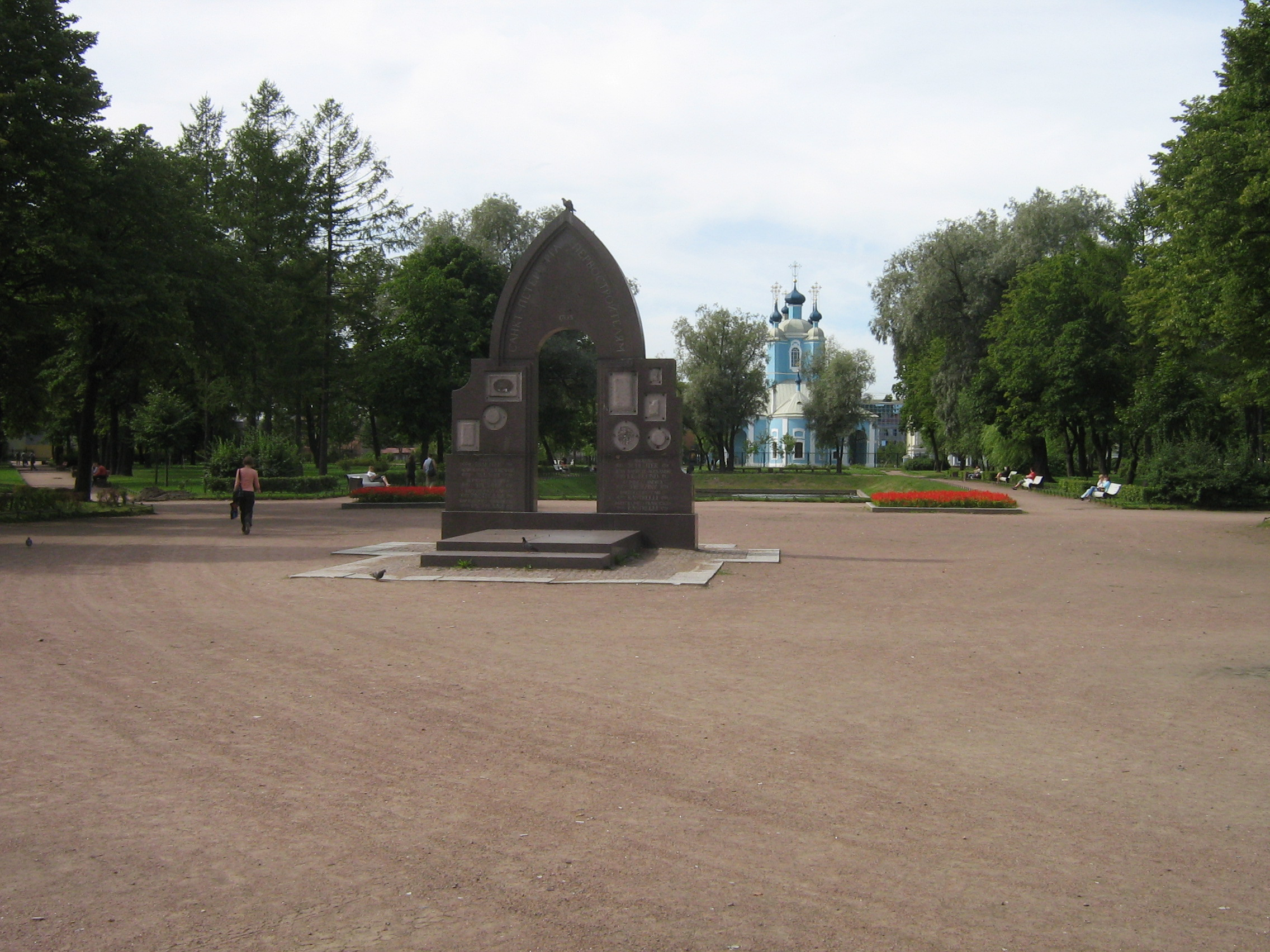 Saint Petersburg (Russia), Bolshoi Sampsonievsky Prospect.